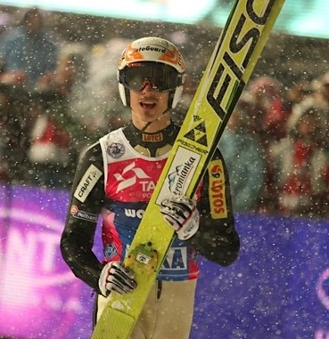 Piotr Żyła during Adam's Bull's Eye on 26 March 2011 in Zakopane.